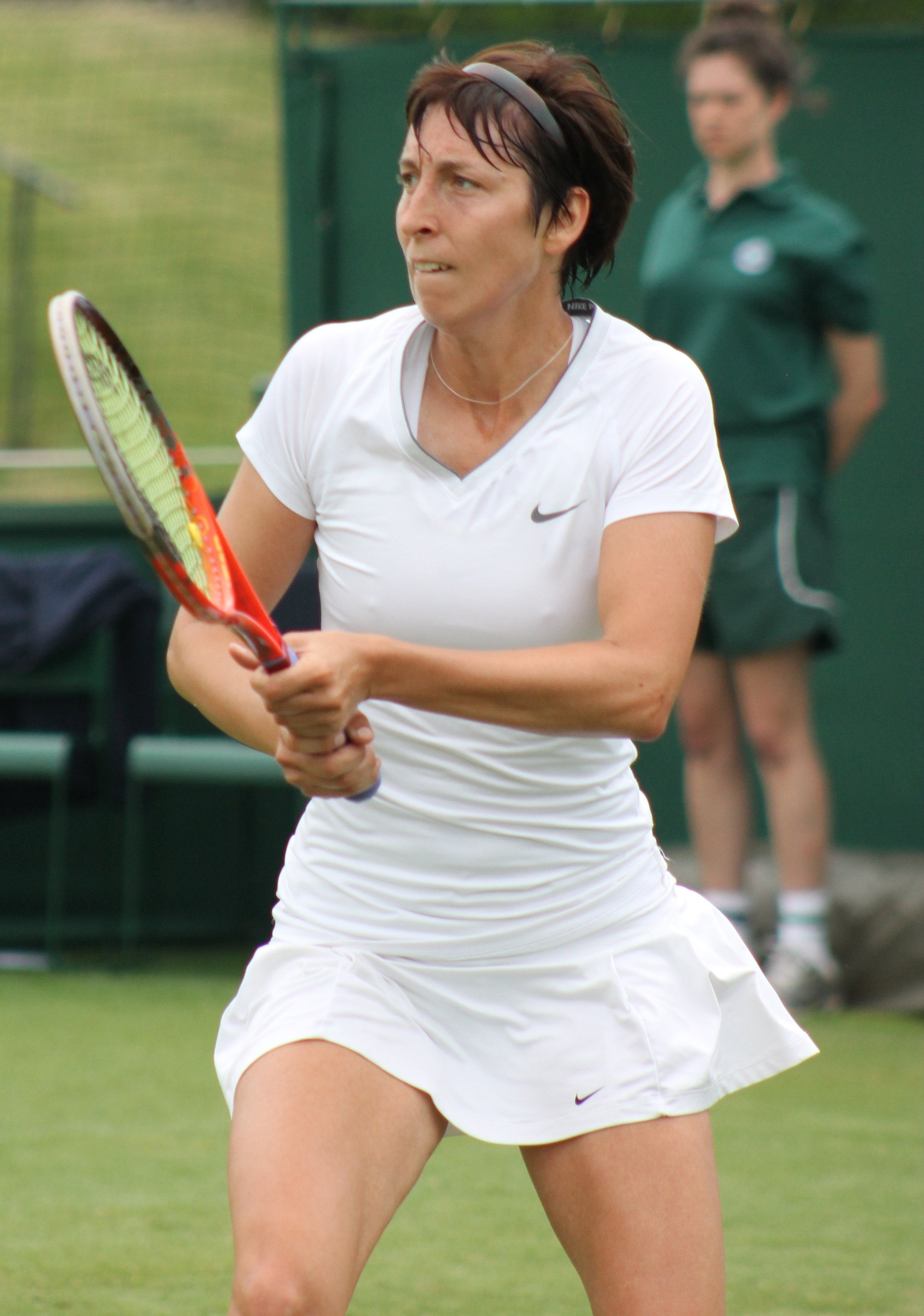 Yvonne Meusburger, 2013 Wimbledon Qualifying Tournament